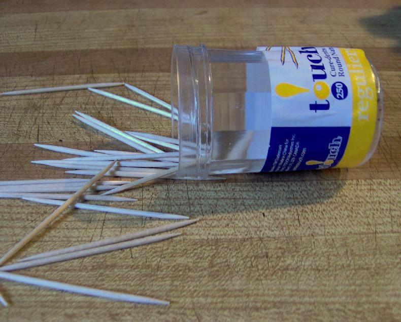 I took this picture of Touch brand toothpicks.